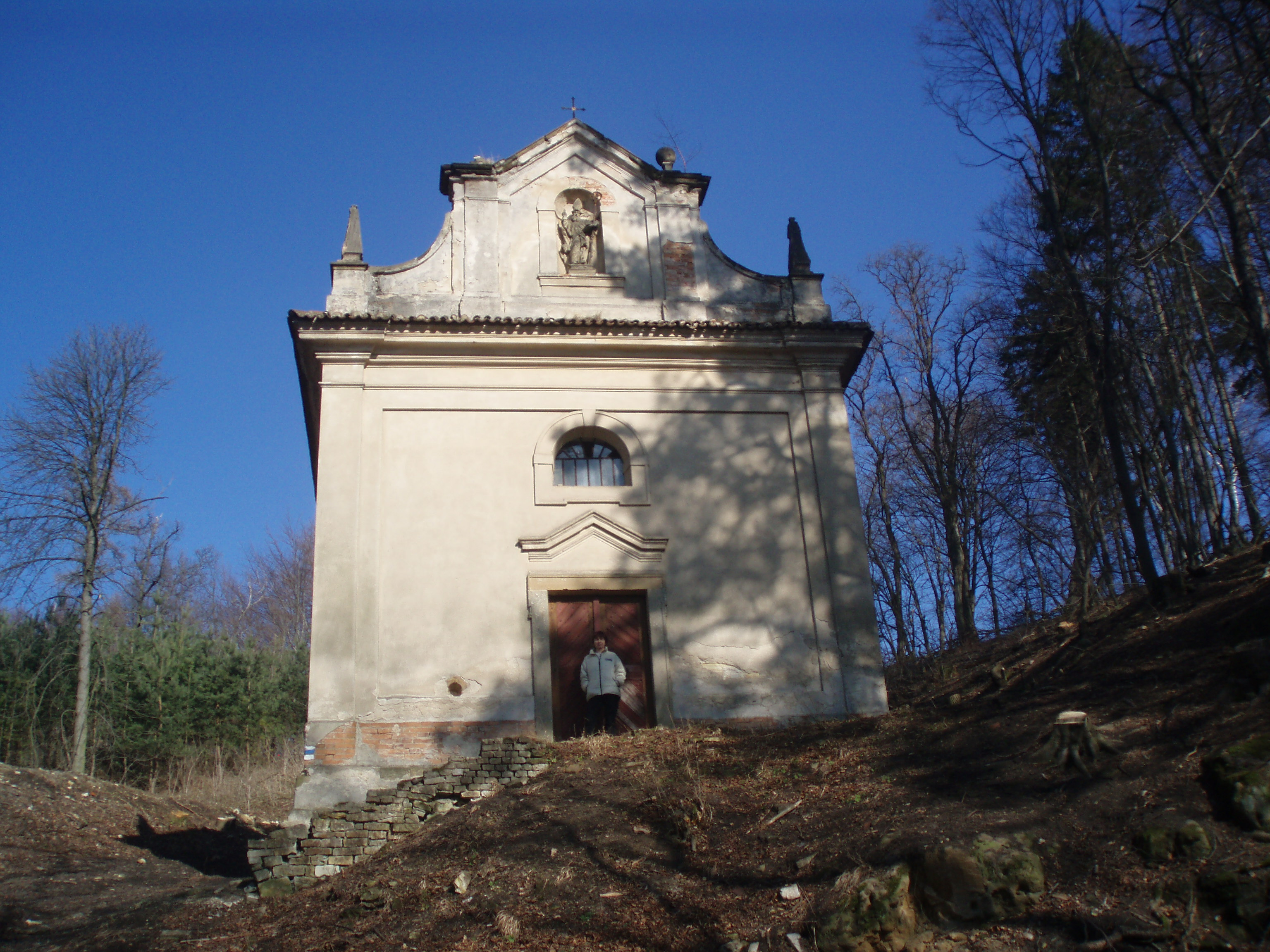 The chapel of st. Adalbert over Kounov, Czech Republic